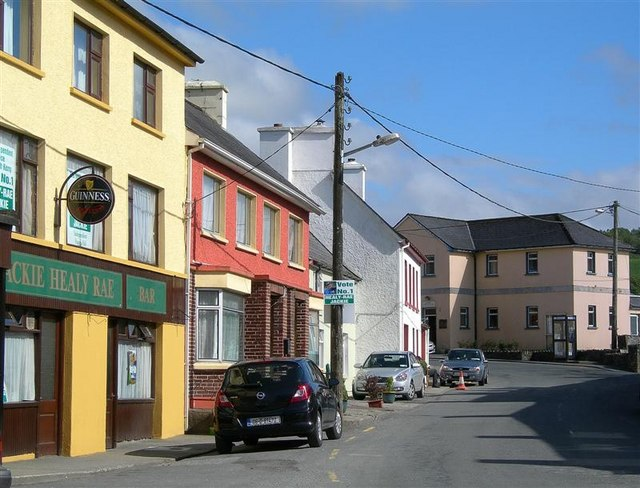 Kilgarvan Kilgarvan village, photographed during the 2007 Irish election.